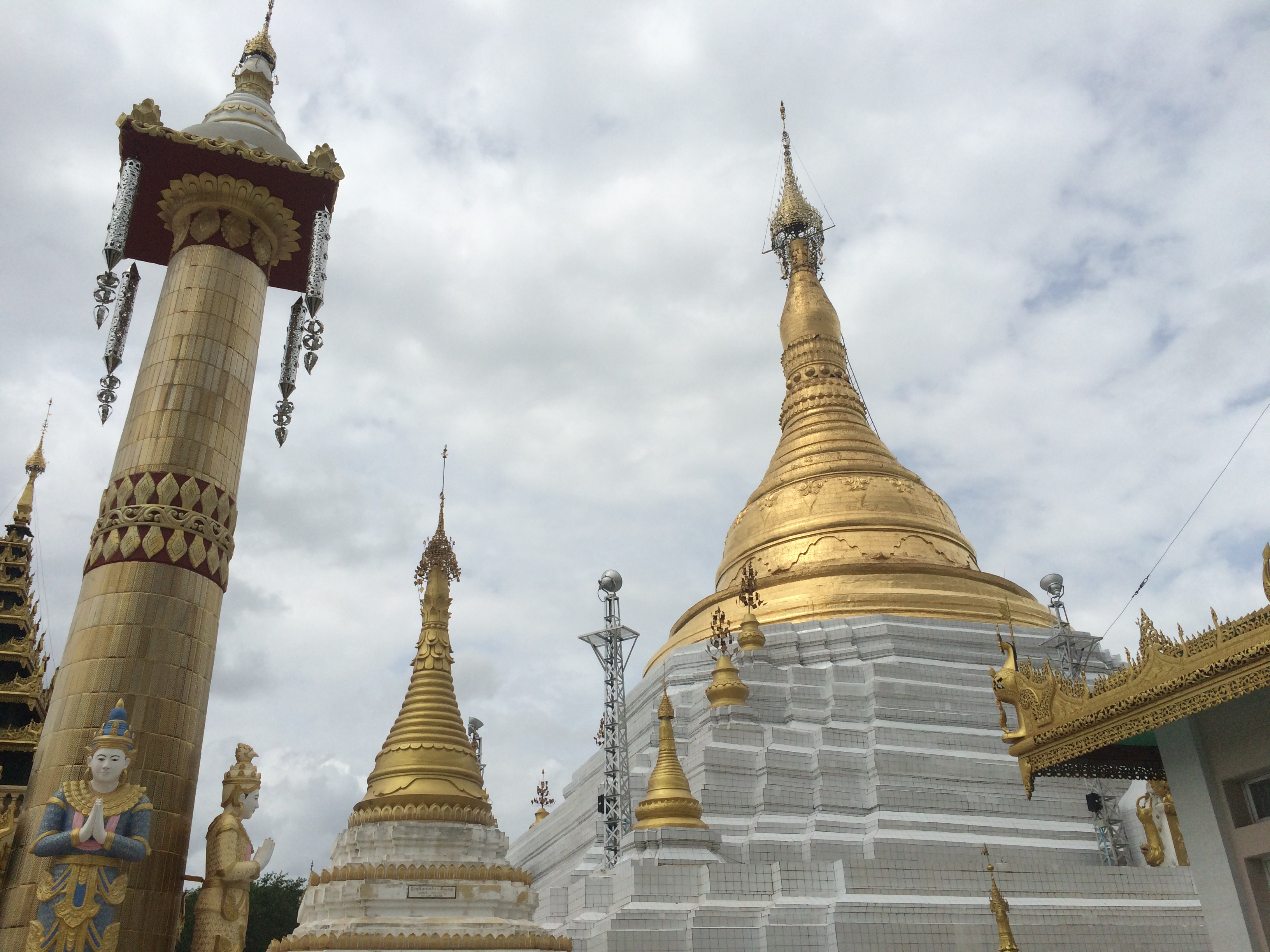 Mawdawlmyinthar Pagoda aka Myodaung Pagoda at Shwebo, Sagaing Region, Burma